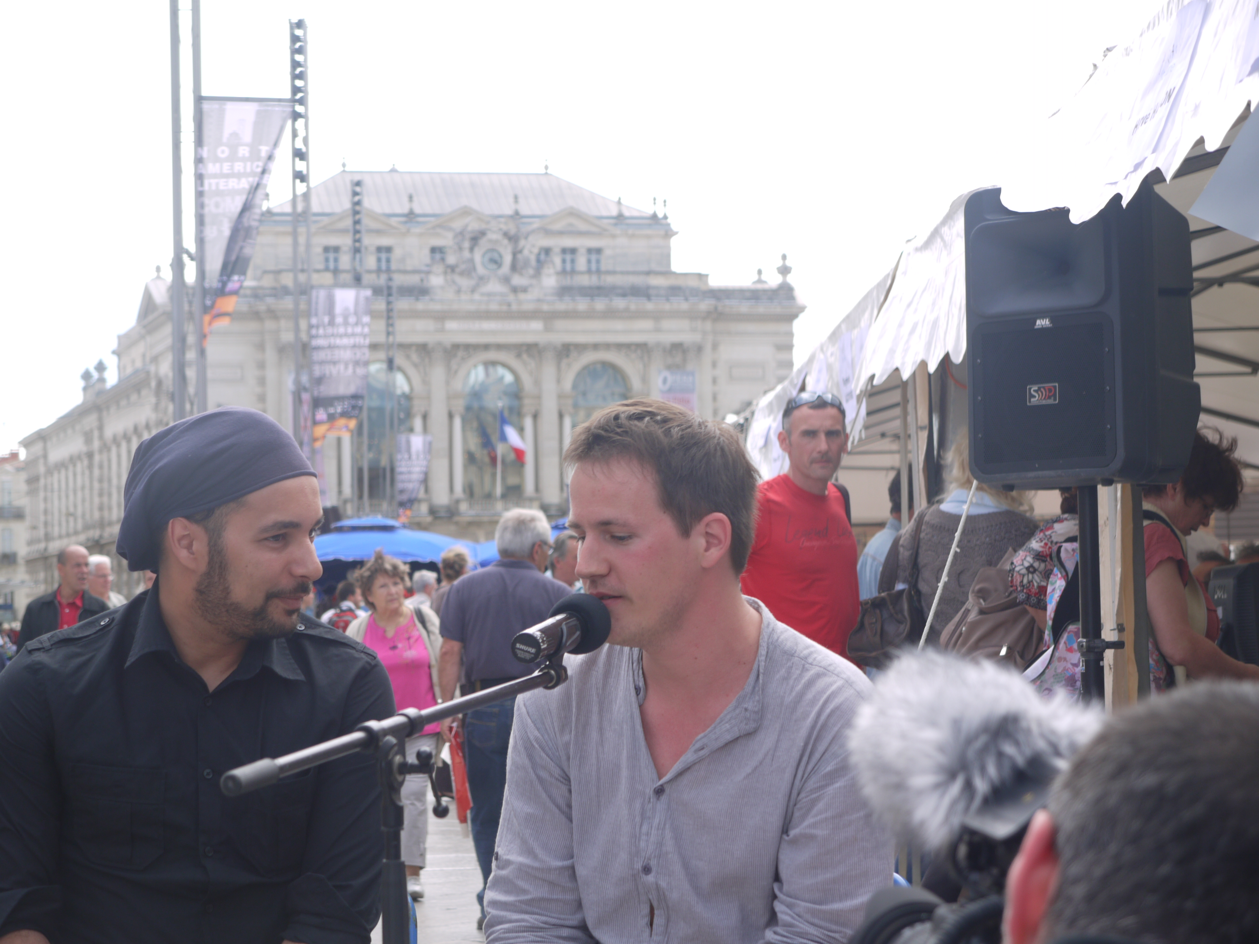 Comédie du Livre 2010 edition of Montpellier